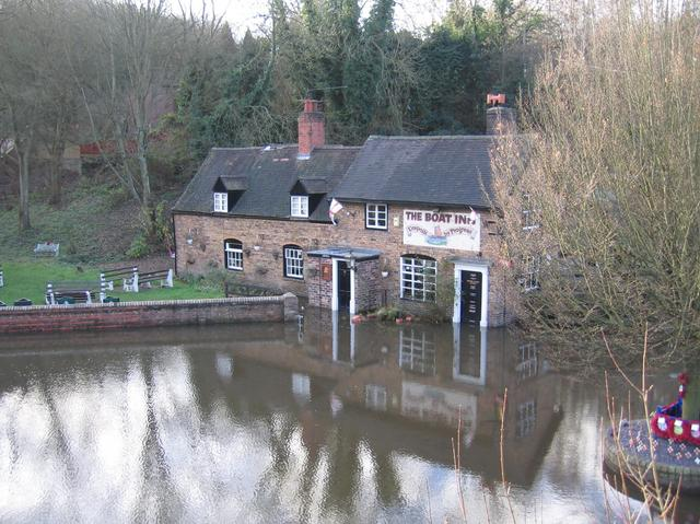 Boat Inn The Boat Inn is on the opposite bank of the River Severn to Coalport. As can be seen the river is in flood, and the pub's name could also be taken as an instruction! The marks on the right hand doorway show previous flood levels, and on this occasion the water has not even reached the lowest of these lines so could be construed as a "routine" flood.